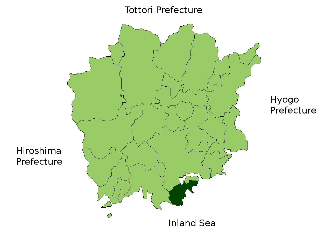 Map of Okayama Prefecture highlighting Tamano city. Borders of map as of July, 2006. (blank map used from [1]) See also Image:OkayamaMapCurrent.png.